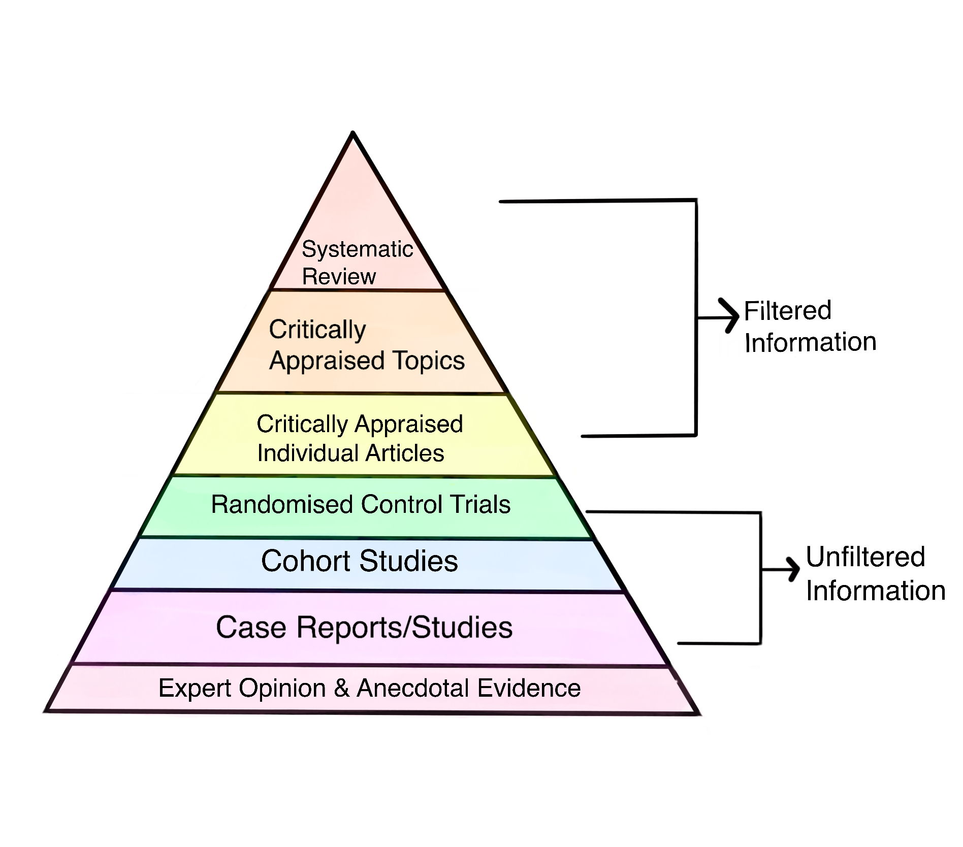 The drawn picture that illustrates the various types of evidence available and their rank in terms of reliability.